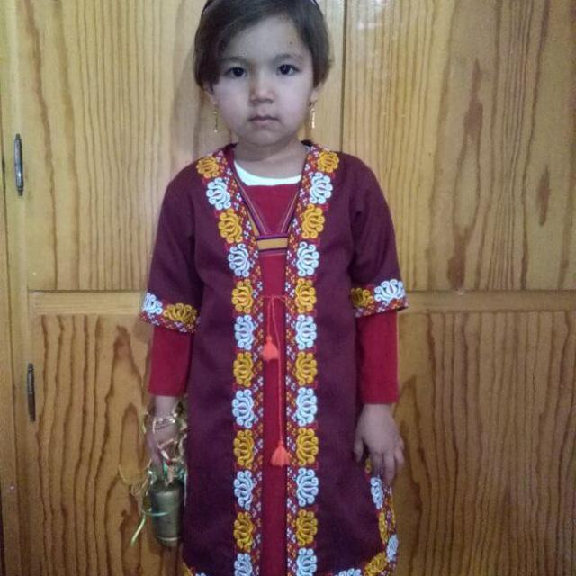 Turkmen girl